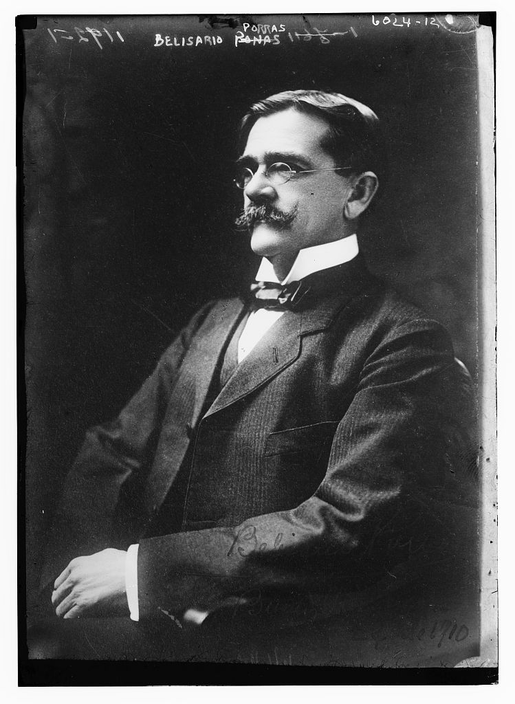 Belisario Porras (1856-1942), President of Panama